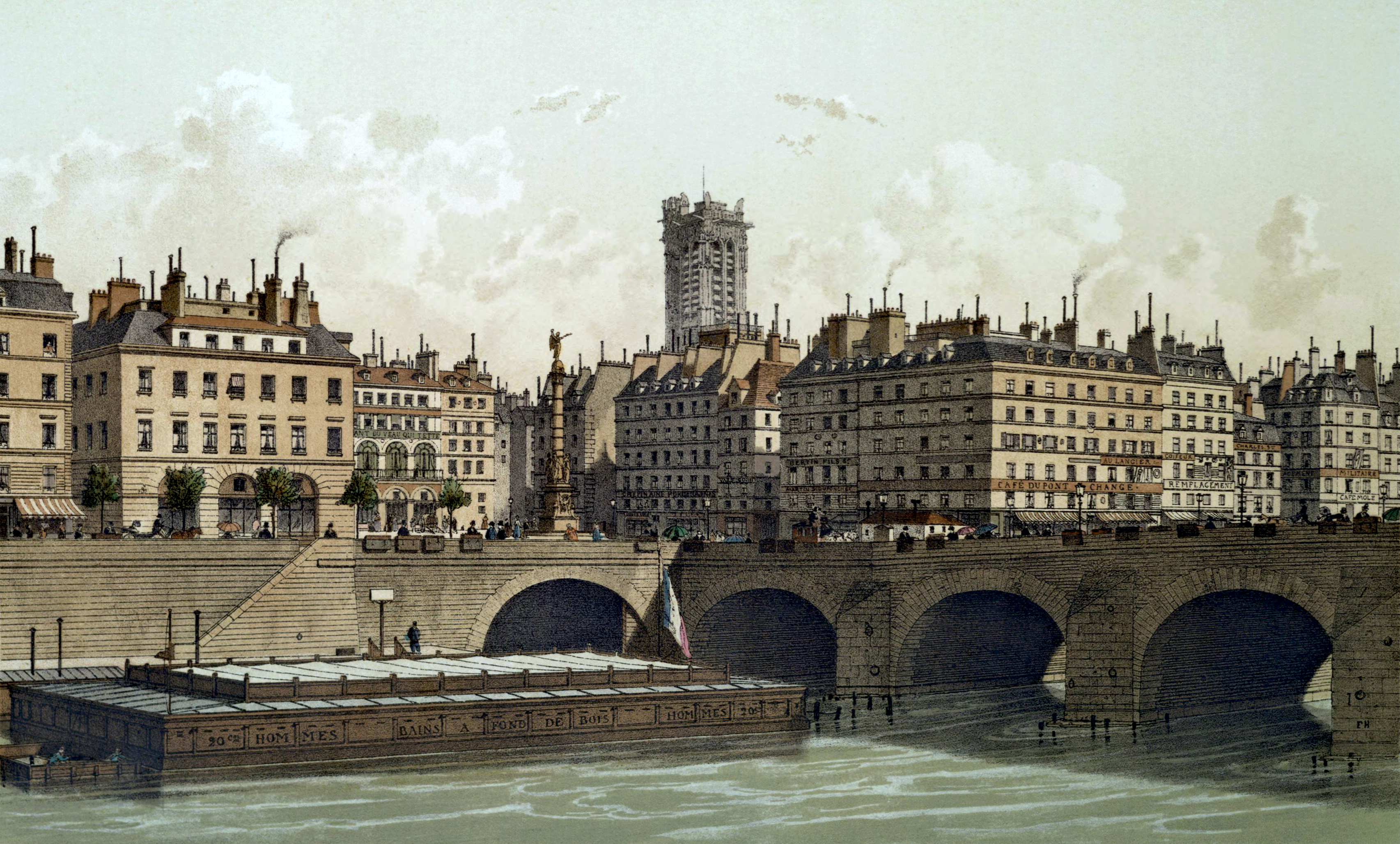 "The Place du Châtelet takes its name from the ancient fortress, Le Grand Châtelet, that was constructed to guard the Pont au Change. It was destroyed by Napoléon I. Napleon III, however, gave it its present form. In the center of the Place stands a fountain. A column, built in 1808, is a monument to the victories of Napoléon I."